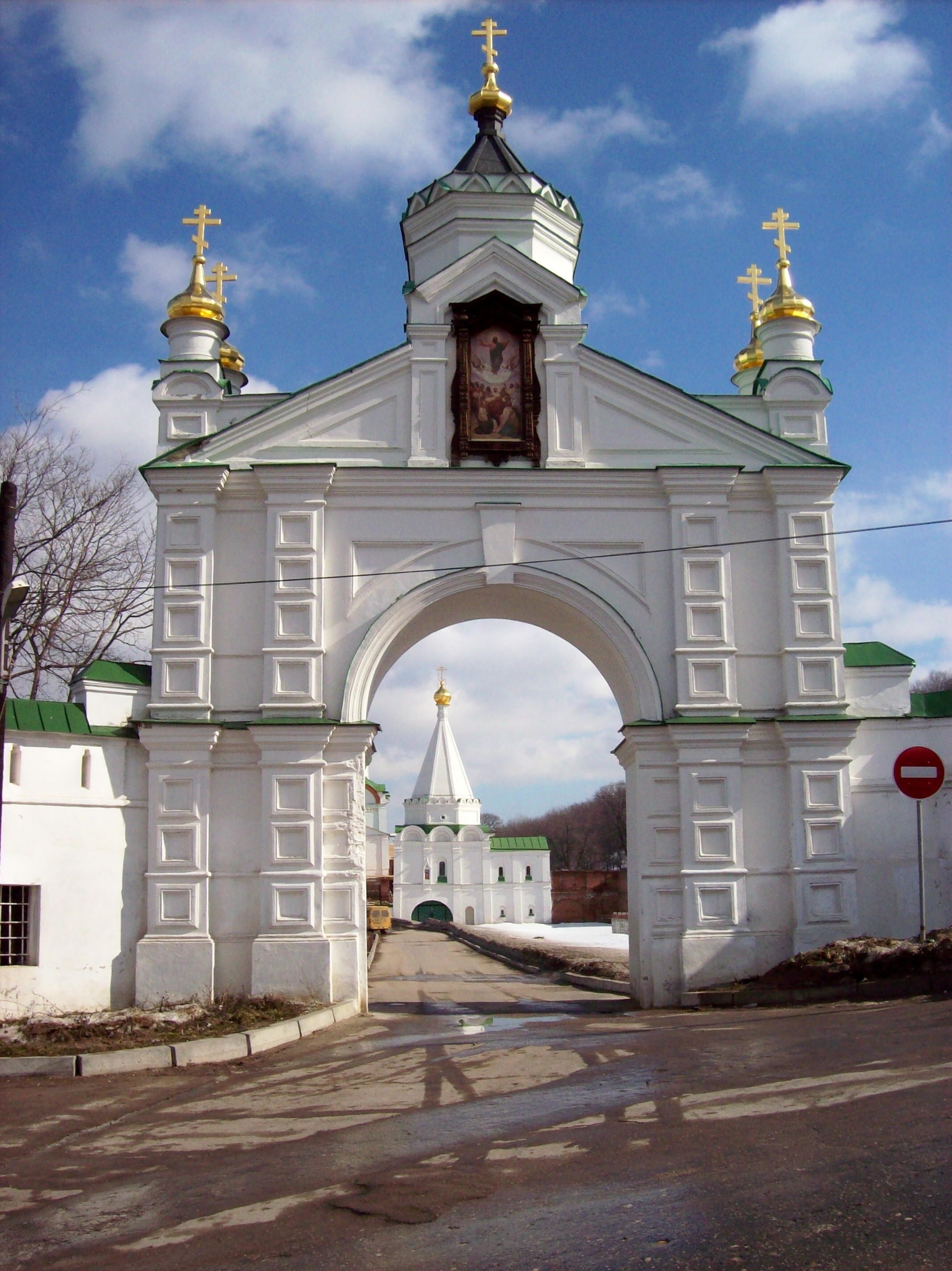 Pechersky_Monastery_in_Nizhny_Novgorod